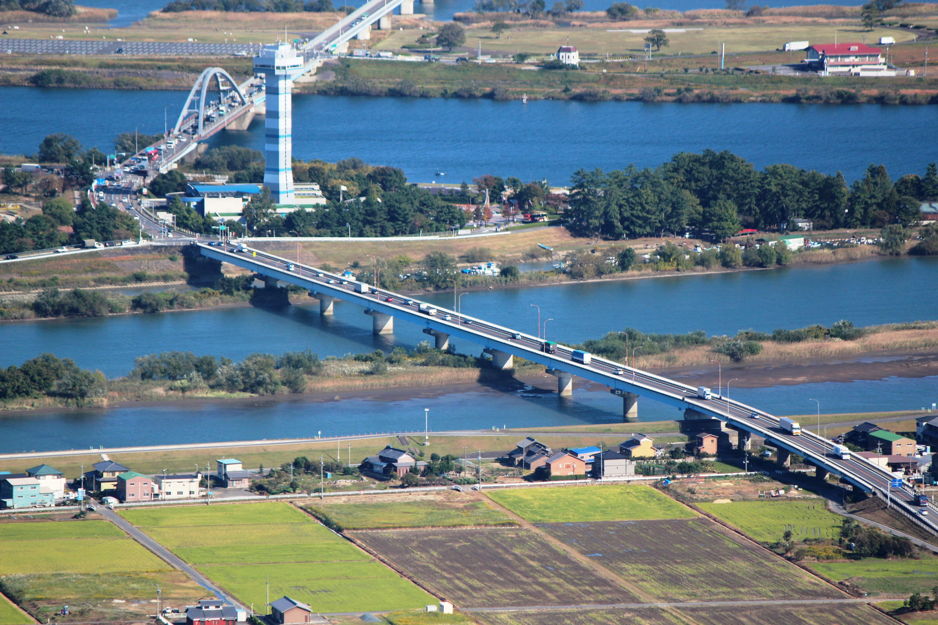 Aburajima Bridge of Ibi River